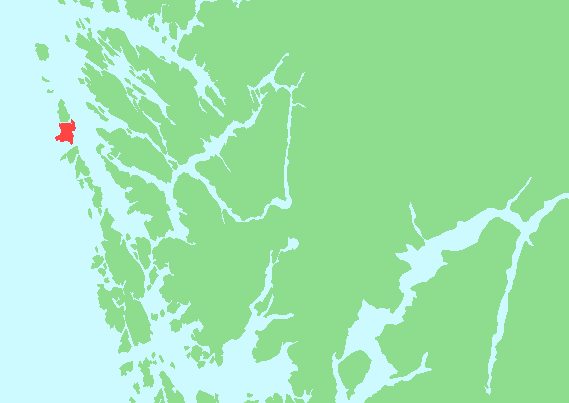 Locator map of Alvøy, Hordaland, Norway